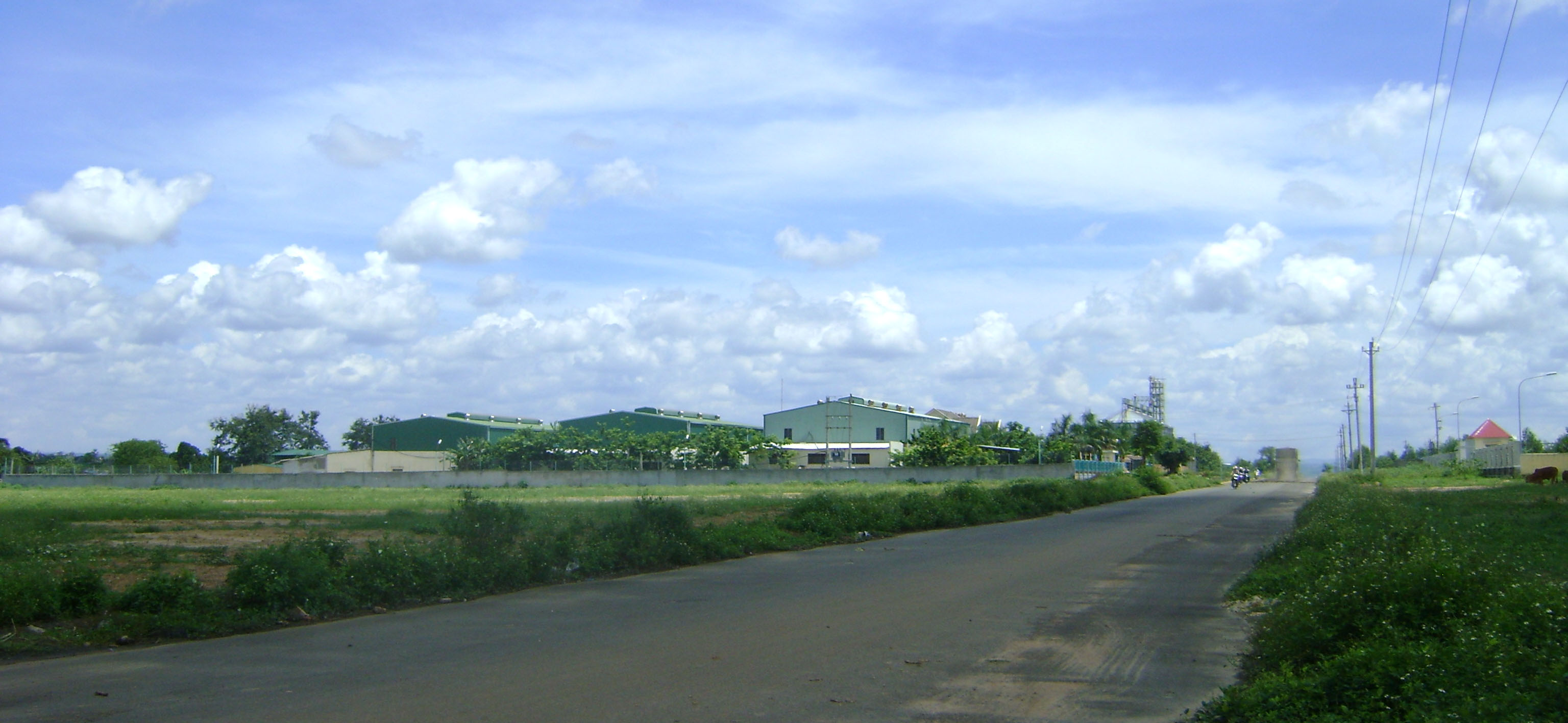 Industrial clusters Eakar